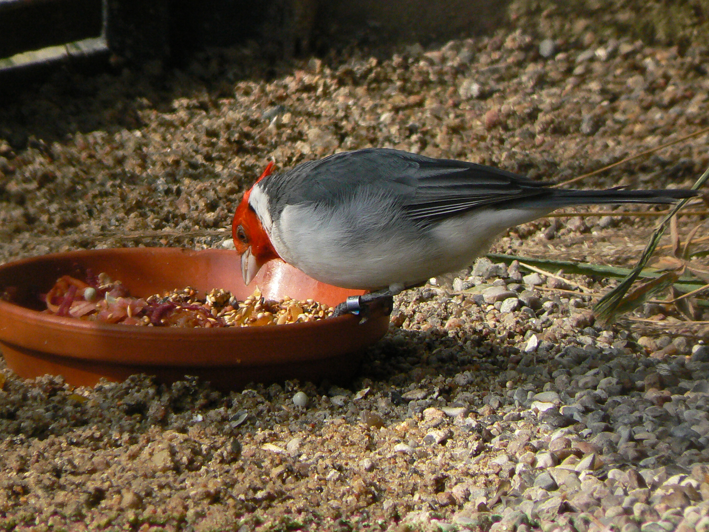 red crested cardinal Paroaria coronata in the zoological gaden in hamburg